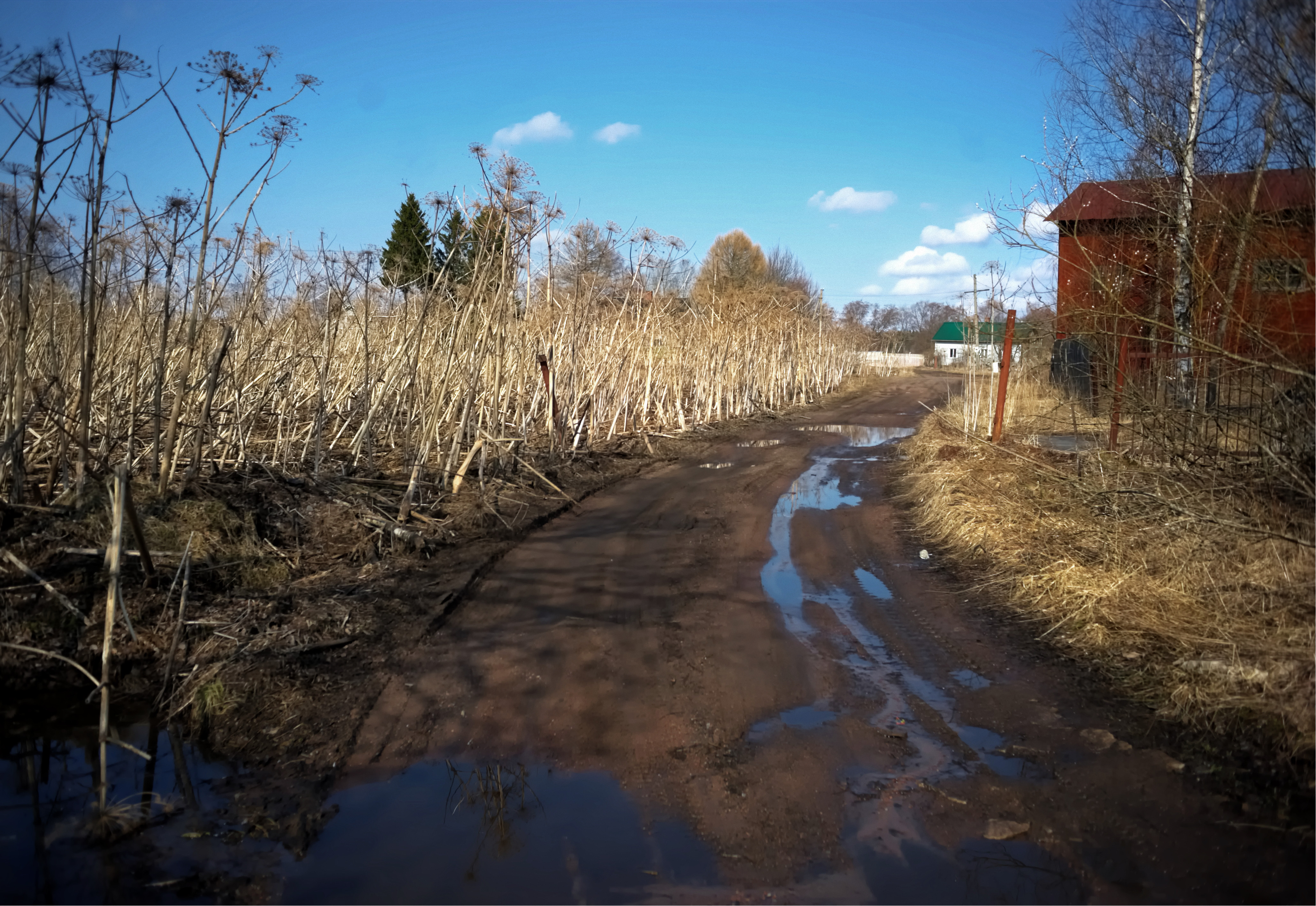 Cow Parsleys at Tokarevo / Kaijala 8.4.2016